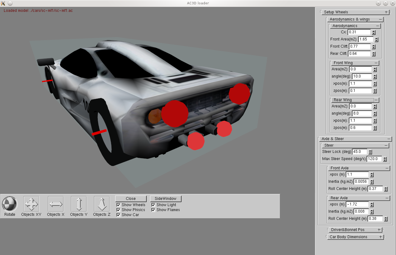 Screenshot of the 3D loader of the Torcs Car Setup Editor by Vicente Marti Centelles, running under Kubuntu 11.10. The car displayed is an sc-mf1 (original model designed by Wolf-Dieter Beelitz for TORCS). This screenshot either does not contain copyright-eligible parts or visuals of copyrighted software, or the author has released it under a free license (which should be indicated beneath this notice), and as such follows the licensing guidelines for screenshots of Wikimedia Commons. You may use it freely according to its particular license. Free software license: This work is free software; you can redistribute it and/or modify it under the terms of the GNU General Public License as published by the Free Software Foundation; either version 2 of the License, or any later version. This work is distributed in the hope that it will be useful, but without any warranty; without even the implied warranty of merchantability or fitness for a particular purpose. See version 2 and version 3 of the GNU General Public License for more details. Copyleft: This work of art is free; you can redistribute it and/or modify it according to terms of the Free Art License. You will find a specimen of this license on the Copyleft Attitude site as well as on other sites. Note: if the screenshot shows any work that is not a direct result of the program code itself, such as a text or graphics that are not part of the program, the license for that work must be indicated separately.